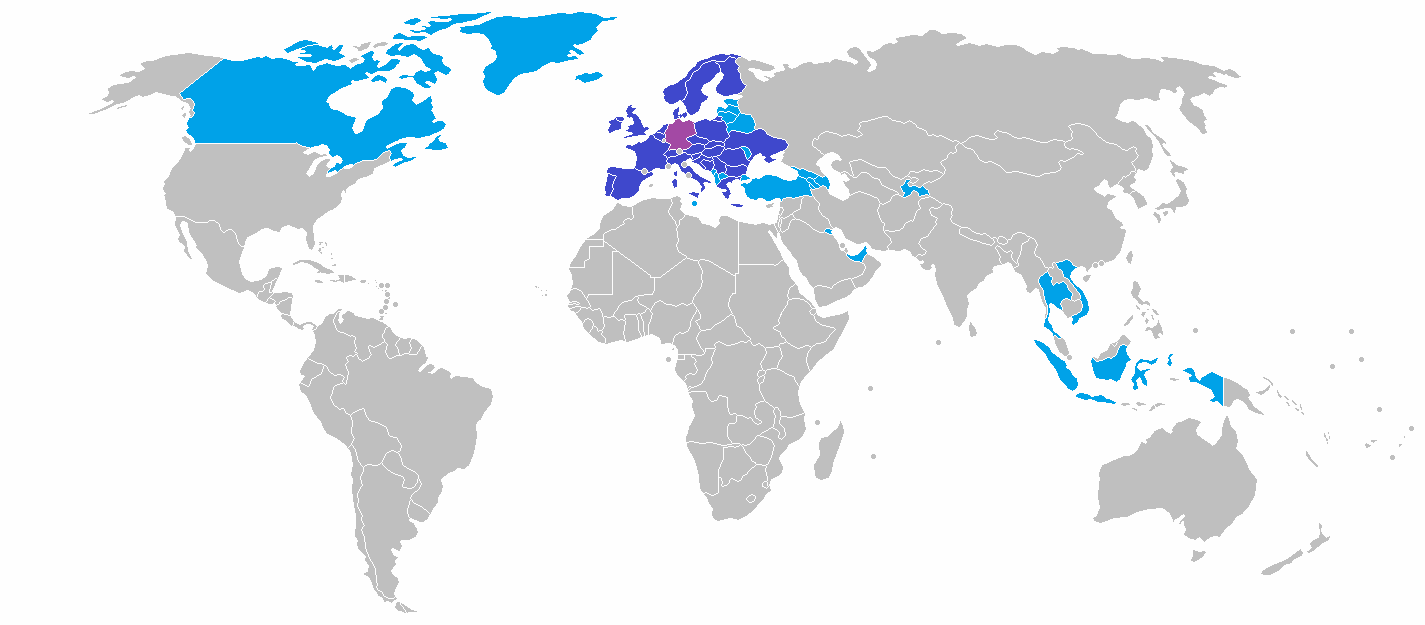 Jysk stores worldwide.